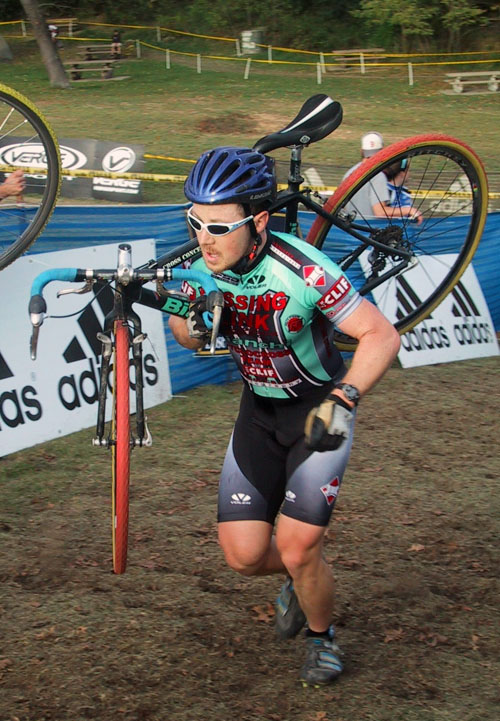 Photo of amateur racer Lance Doherty competing in the ECV Gran Prix of Gloucester Cyclo-cross race in Gloucester, Massachusetts. The racer has dismounted his bicycle to leap over barriers (not shown) and hike up a steep slope. The bicycle frame maker is Bianchi. Category:Images of Massachusetts nl:Afbeelding:Cyclocross.jpg